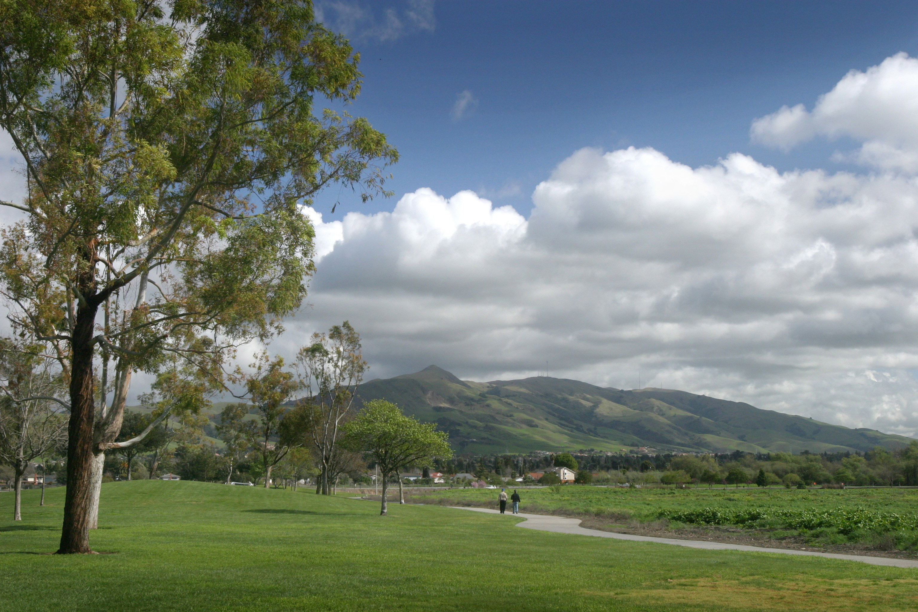 Mission Peak (L), Mount Allison (C) and Monument Peak (R) as seen from lake elizabeth Fremont, CA.